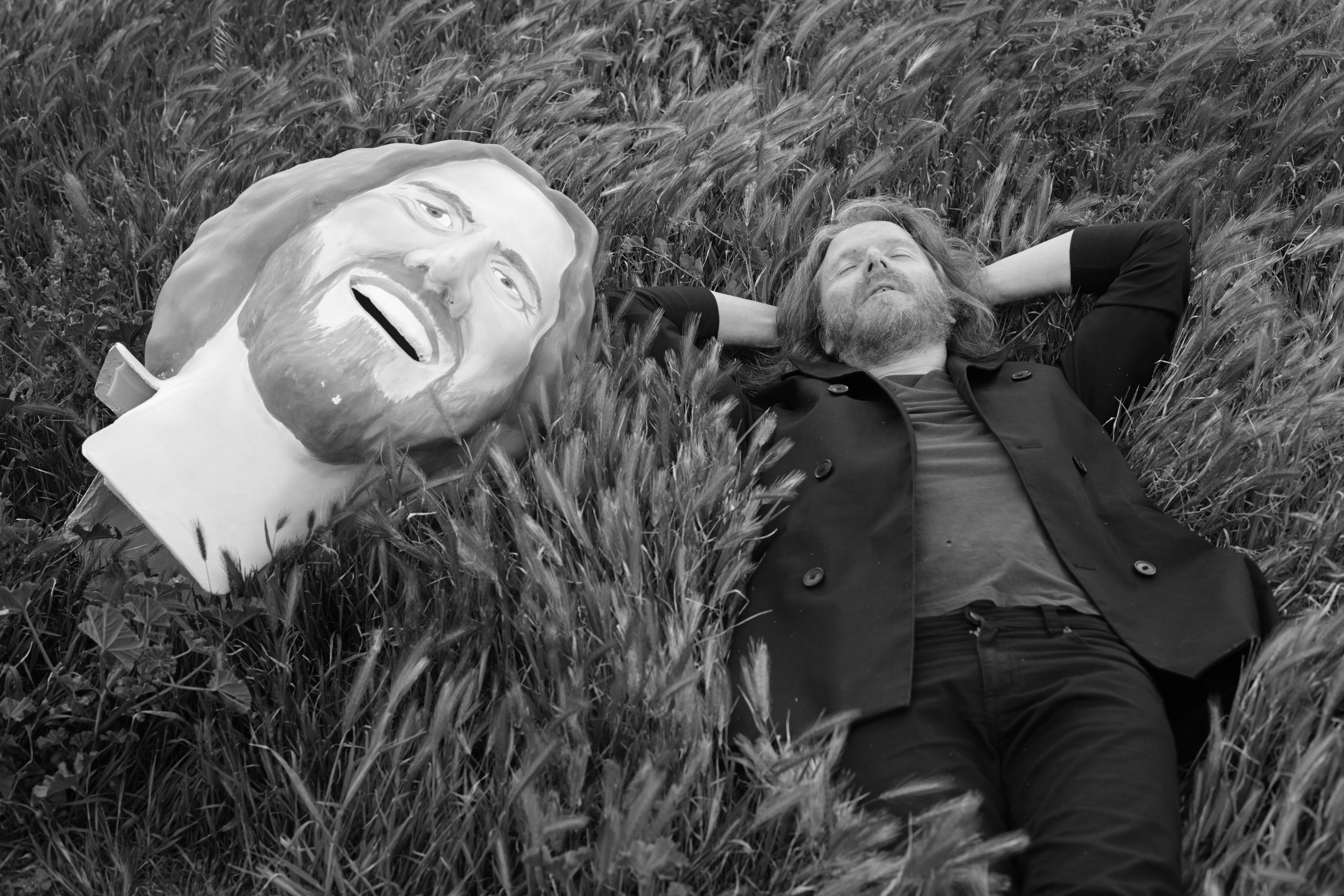 Halldor Mar